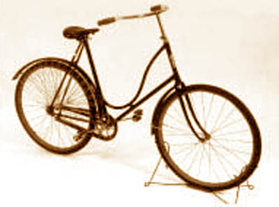 A 19th-century Sterling Bicycle from Sterling Bicycle Co.. Arfon Gryffydd